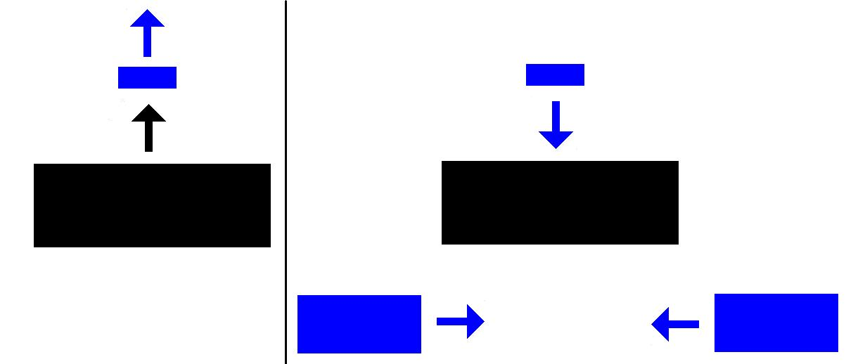 A diagram of the naval maneuvering at the Battle of Cyzicus that I drew. The blue is the Athenians, the black is the Spartans. The small Athenian force is Alcibiades' ships, the two larger forces are Thrasybulus and Theramenes. La estraregia ateniense en Cícico. Izquierda: el señuelo de Alcibíades (azul) atrae a la fuerza espatana (negro) mar adentro. Derecha: Trasíbulo y Terámenes llevan sus esquadrones detrás de los espartanos para cortar su retirada hacia Cícico, mientras Alcibíades vira para enfrentarse a la fuerza perseguidora